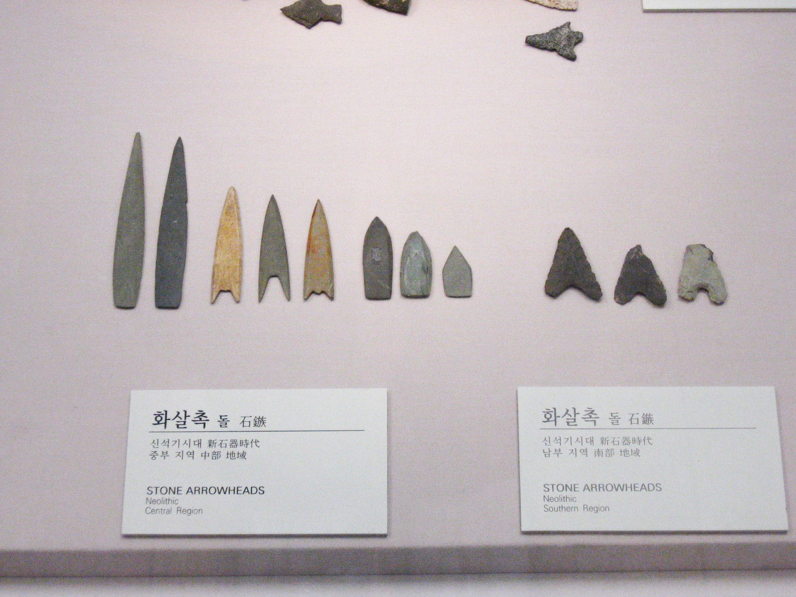 Korean neolithic arrowhead. Taken from the National Museum of Korea.